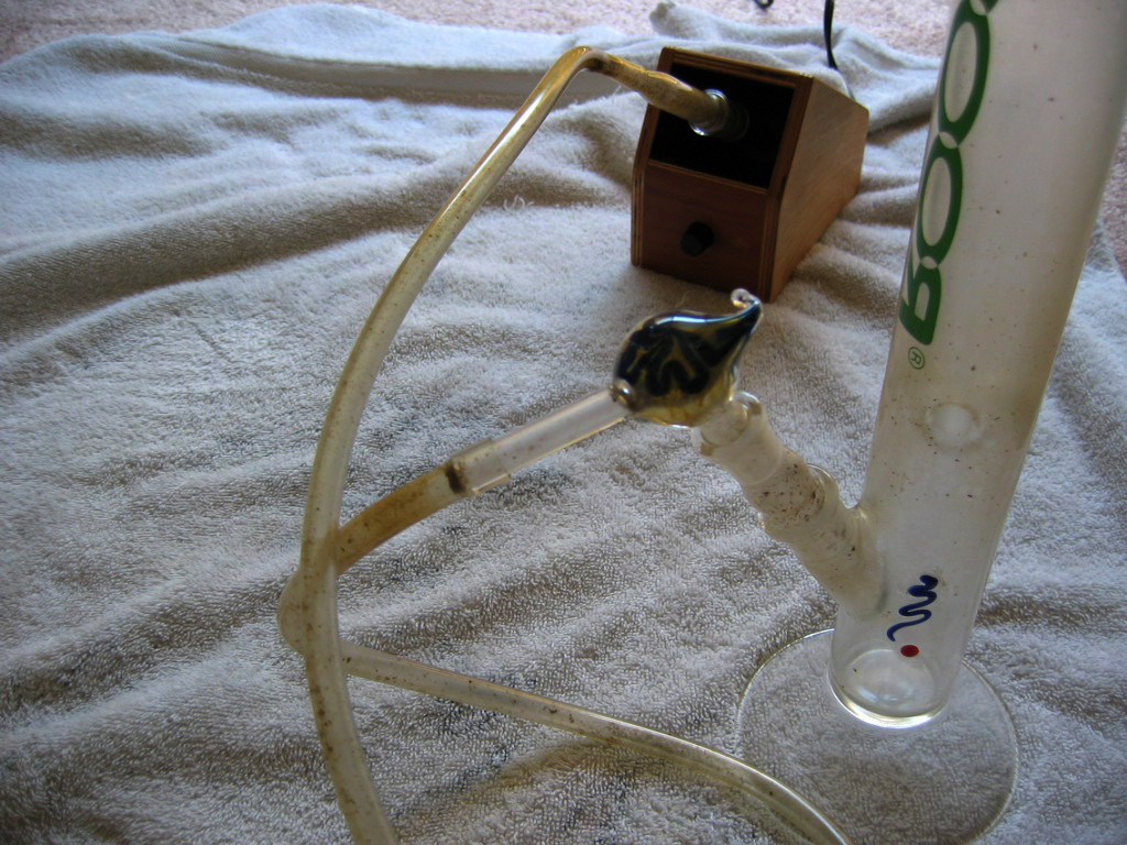 Vapor-Bong After Use Of Legally Obtained Medicinal Herbs.